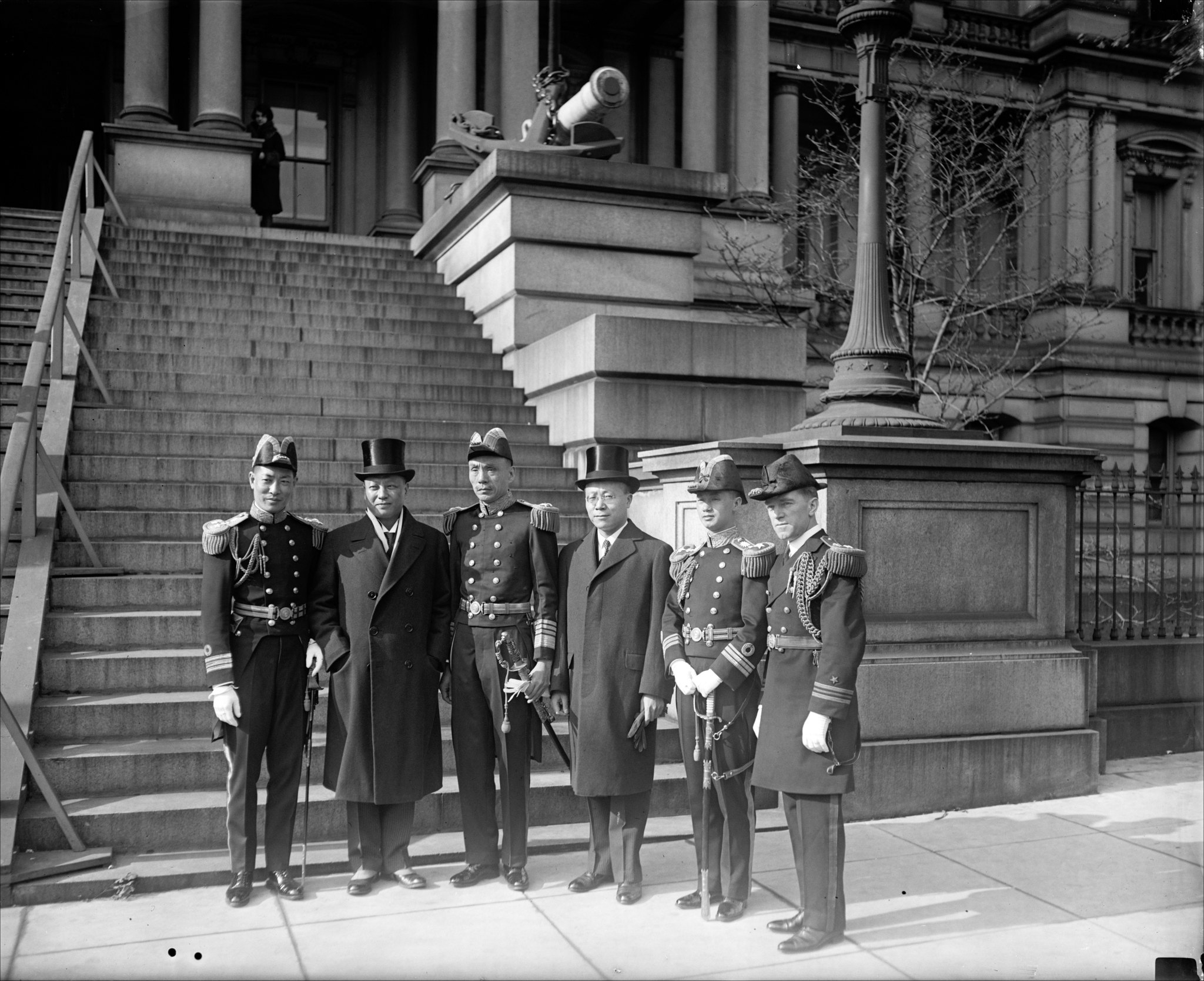 Chinese on world tour. Chinese Naval officers on world tour meet President Hoover. Photographed in front of the temporary White House executive offices, left to right, they are: Comdr. S.C. Whang, Mr. Hollington K. Tong, Admiral H.K. Tu, Minister C.C. Wu, Lt. Comdr. M.H. Ching, and Lt. Comdr. T. De Witt Carr, U.S.N.